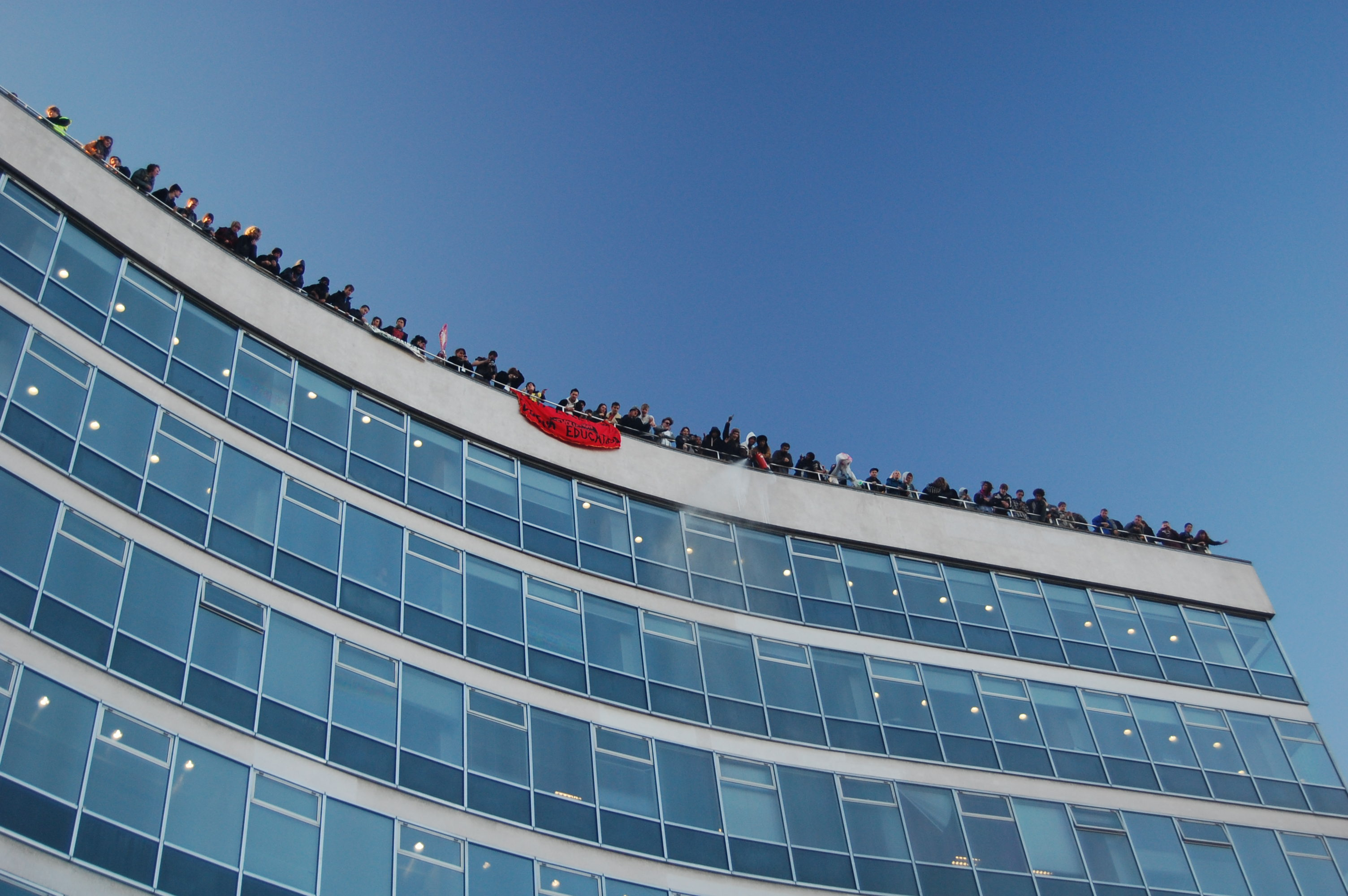 Protesters at the w:2010 student protest in London on the roof of w:30 Millbank.